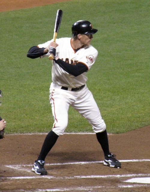 Hunter Pence at AT&T Park on 2012